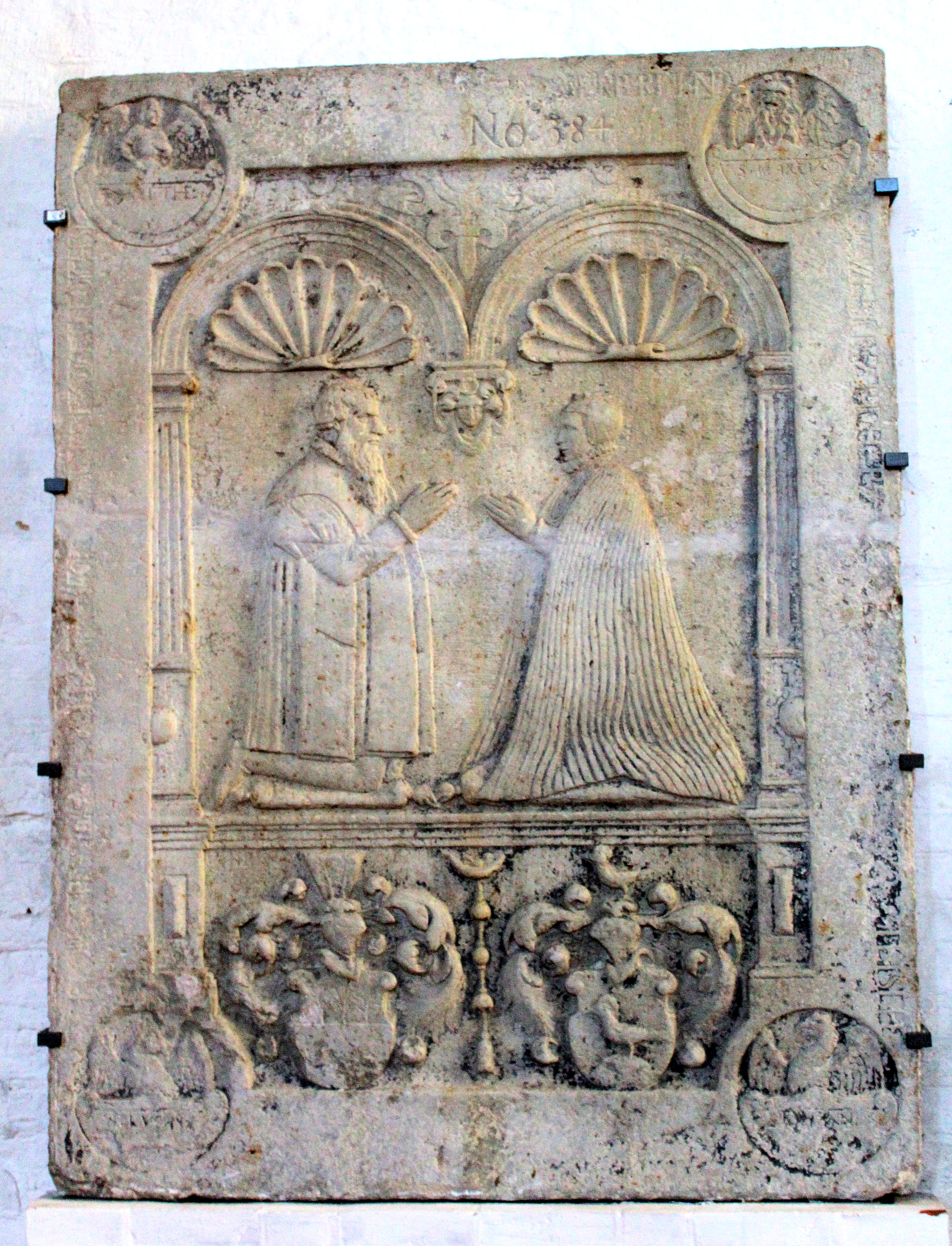 Lübeck, St. Mary's church, gravestone of Johann Brokes